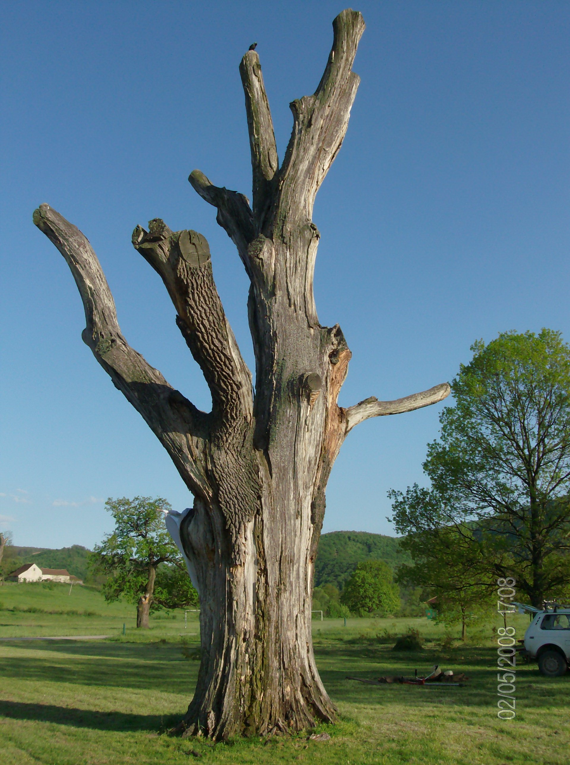 The Takovo's Oak Tree